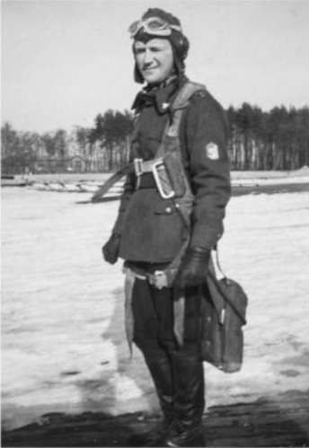 Photograph of the Finnish writer and pilot Tapani Harmaja (1917–1940).